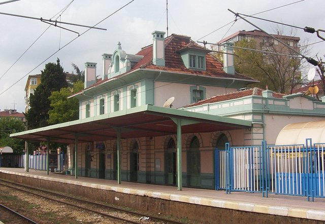 Bostanci railway station in Setpember 2005.